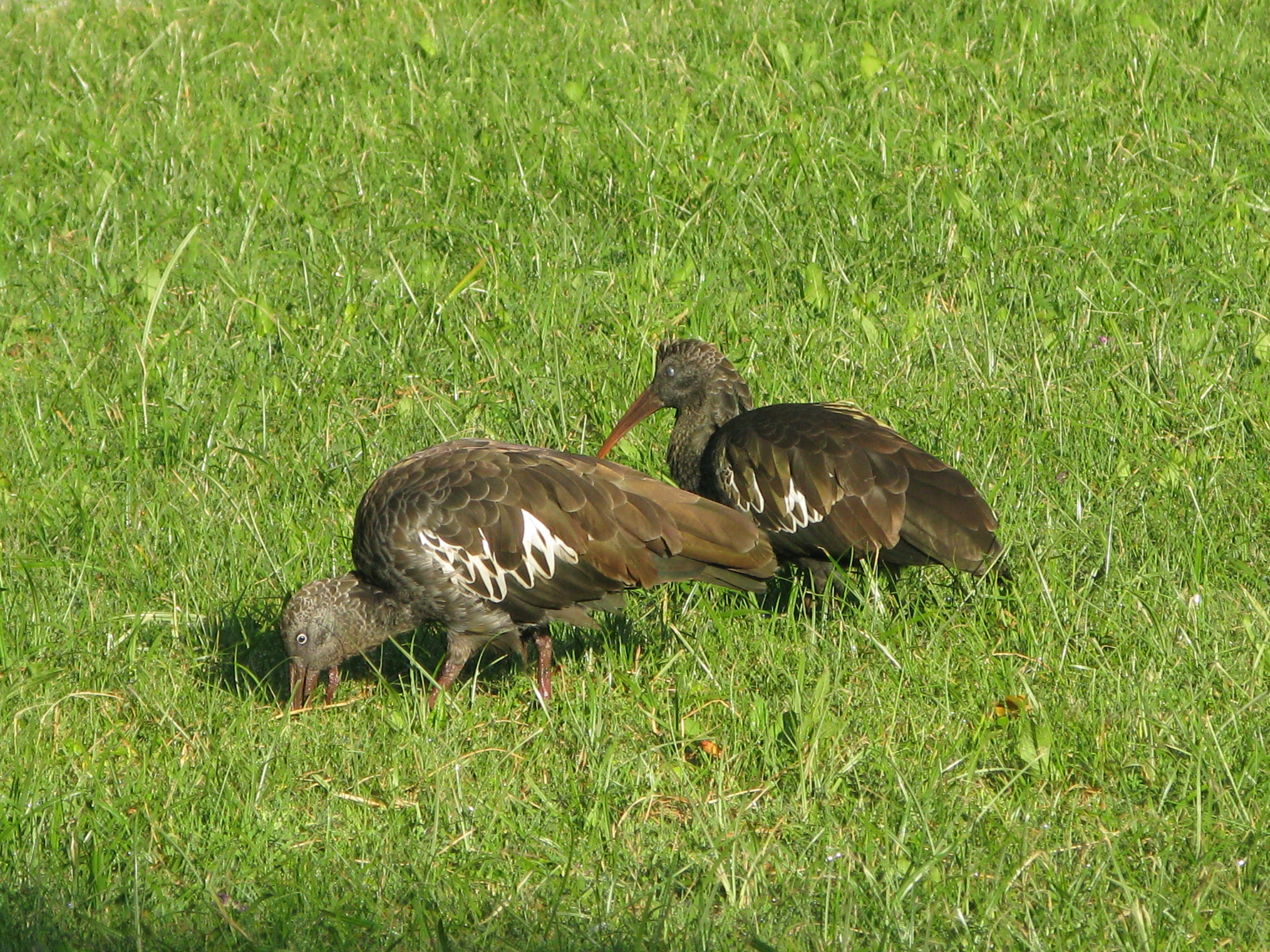 I just learned that this is a wattled Ibis. Bostrychia carunculata. Ethiopia.